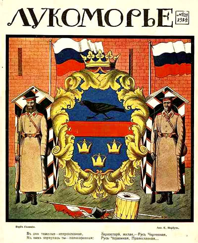 Coat of arms of the Galicia and Lodomeria Governorate. Artwork by Heorhiy Narbut